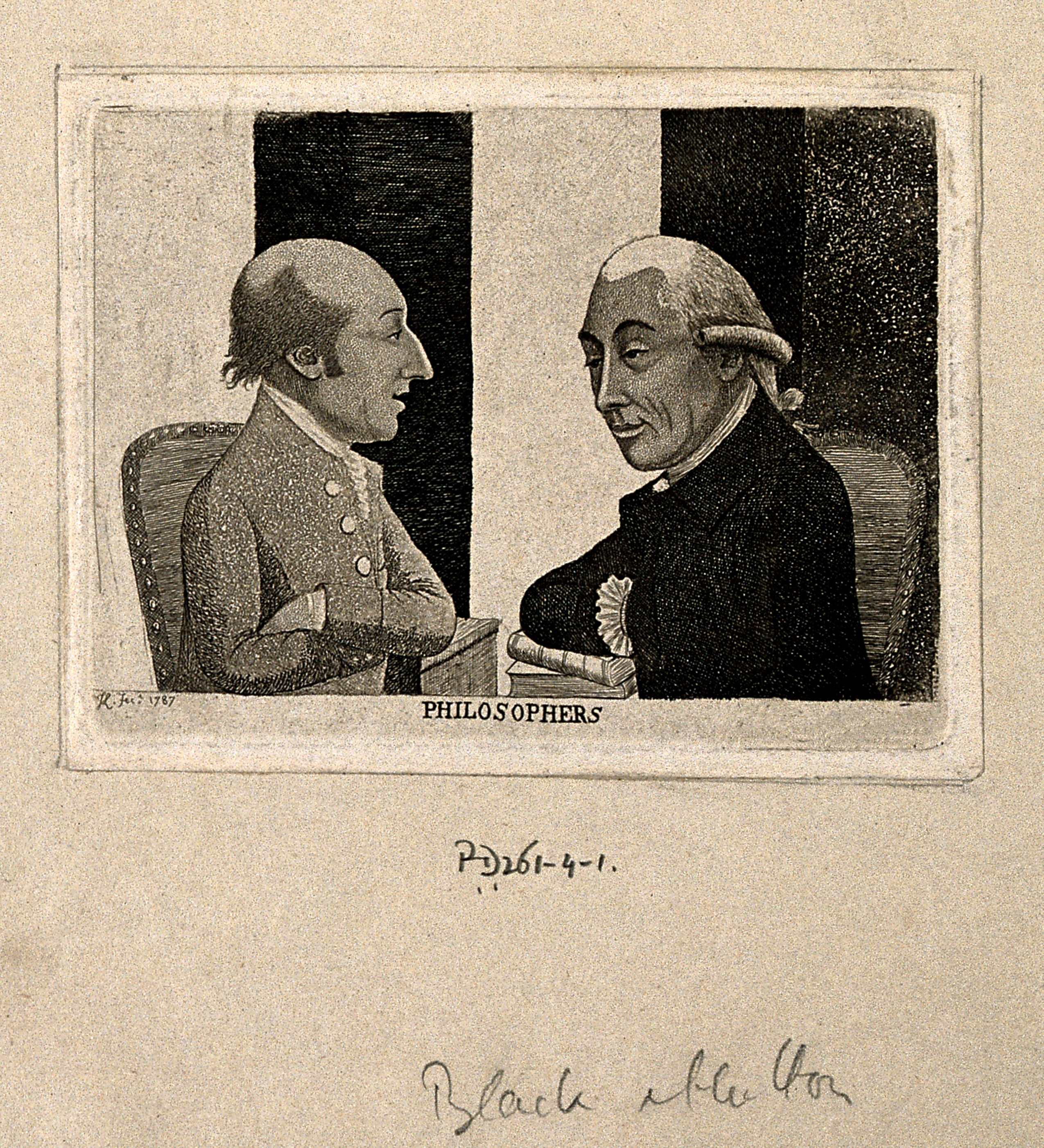 Joseph Black and James Hutton, natural philosophers, talking together. Etching by J. Kay, 1787, after himself. Iconographic Collections Keywords: Joseph Black; John Kay; James Hutton